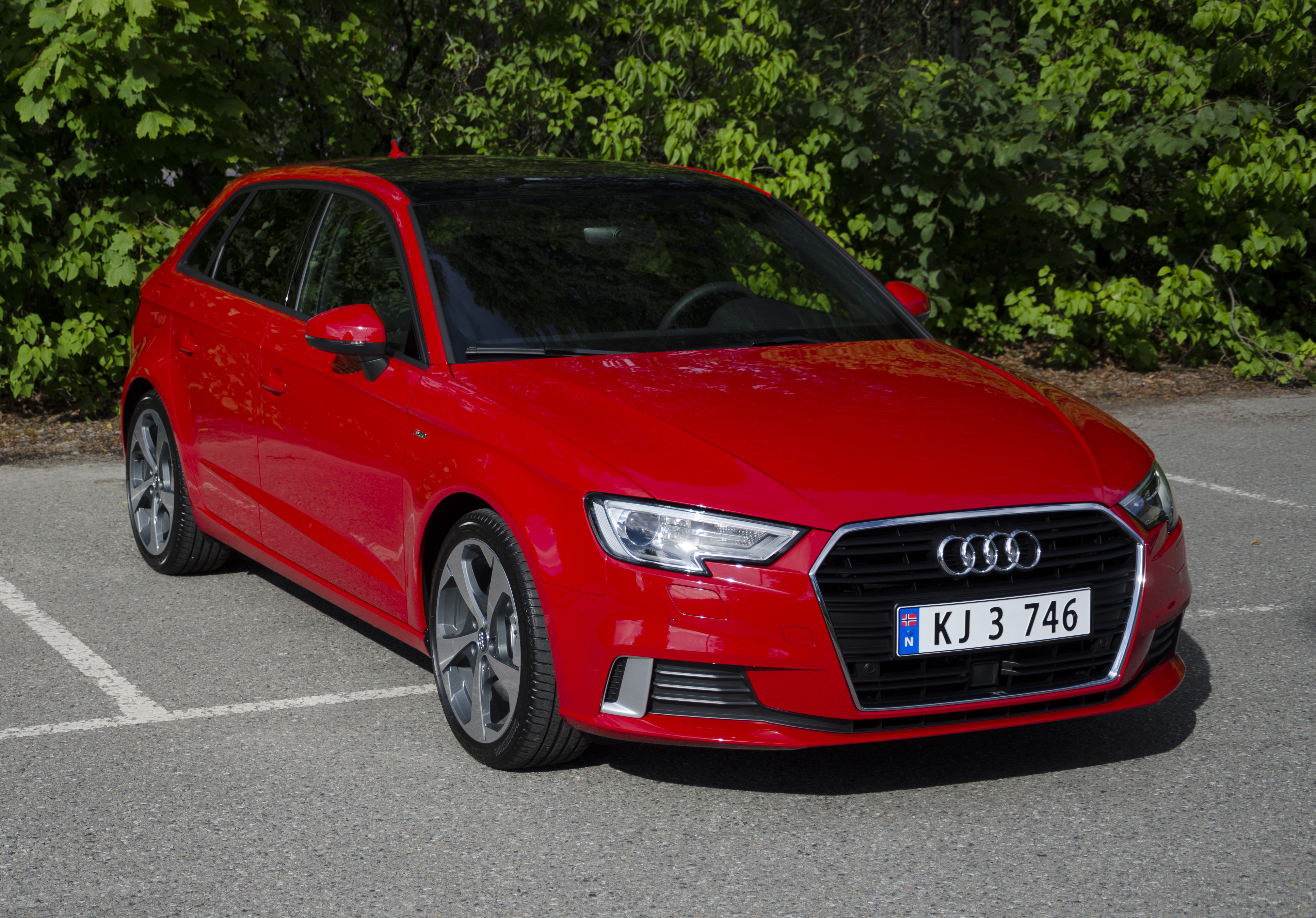 Audi A3 SportBack 2.0 TFSI S-line 2017 (three-quarter view)